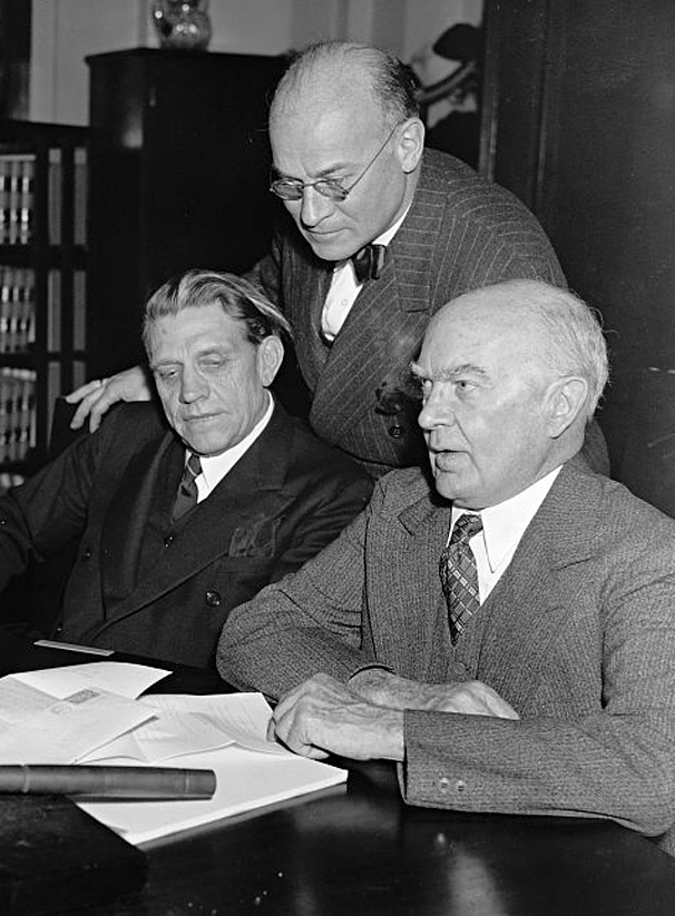 Three Members of the US House of Representatives: U. S. Guyer from Kansas on the left, Emanuel Celler from New York on the right, and Hatton W. Sumners from Texas (center).